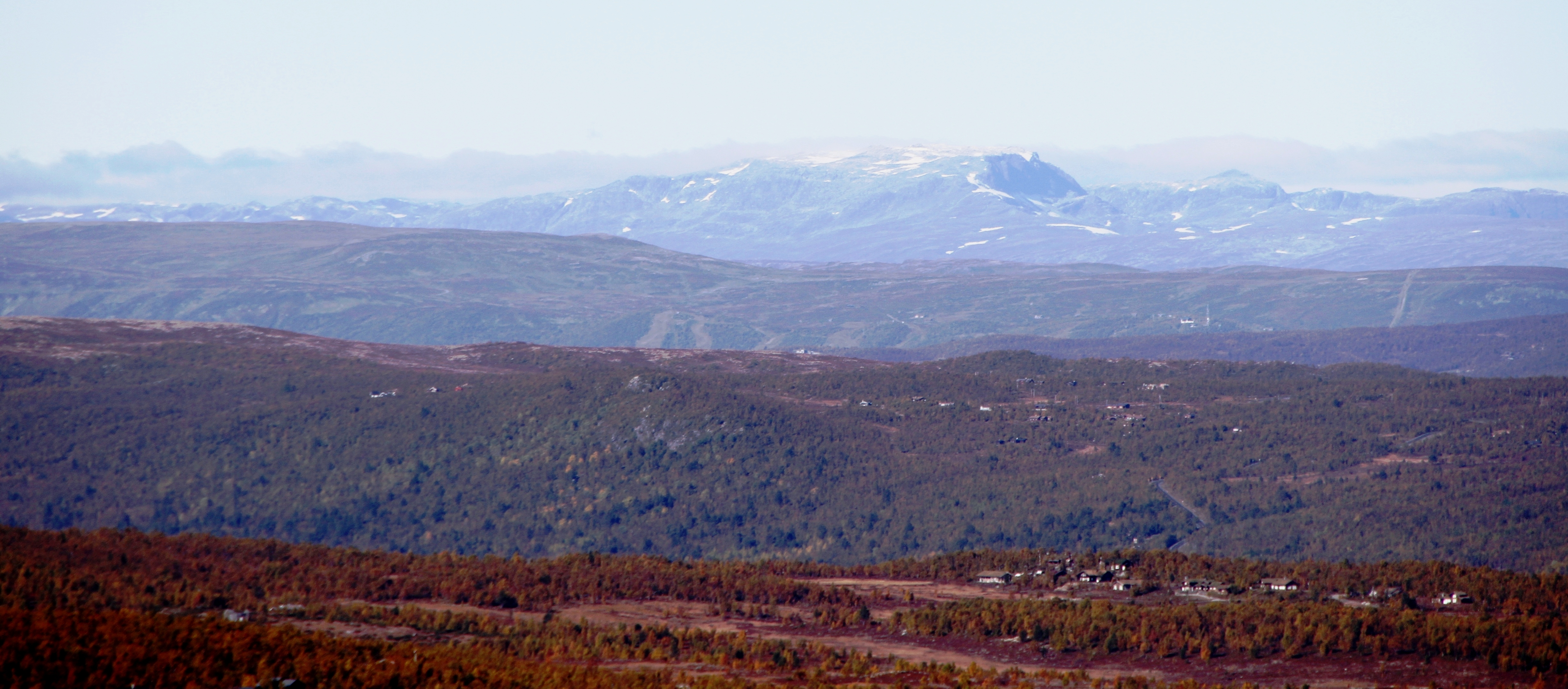 Blåbergi Mountains (1,802 m.a.s.l) in the distant, Seen from Dagalifjell where all of the area in between lies in Hol municipality, Buskerud county, Norway